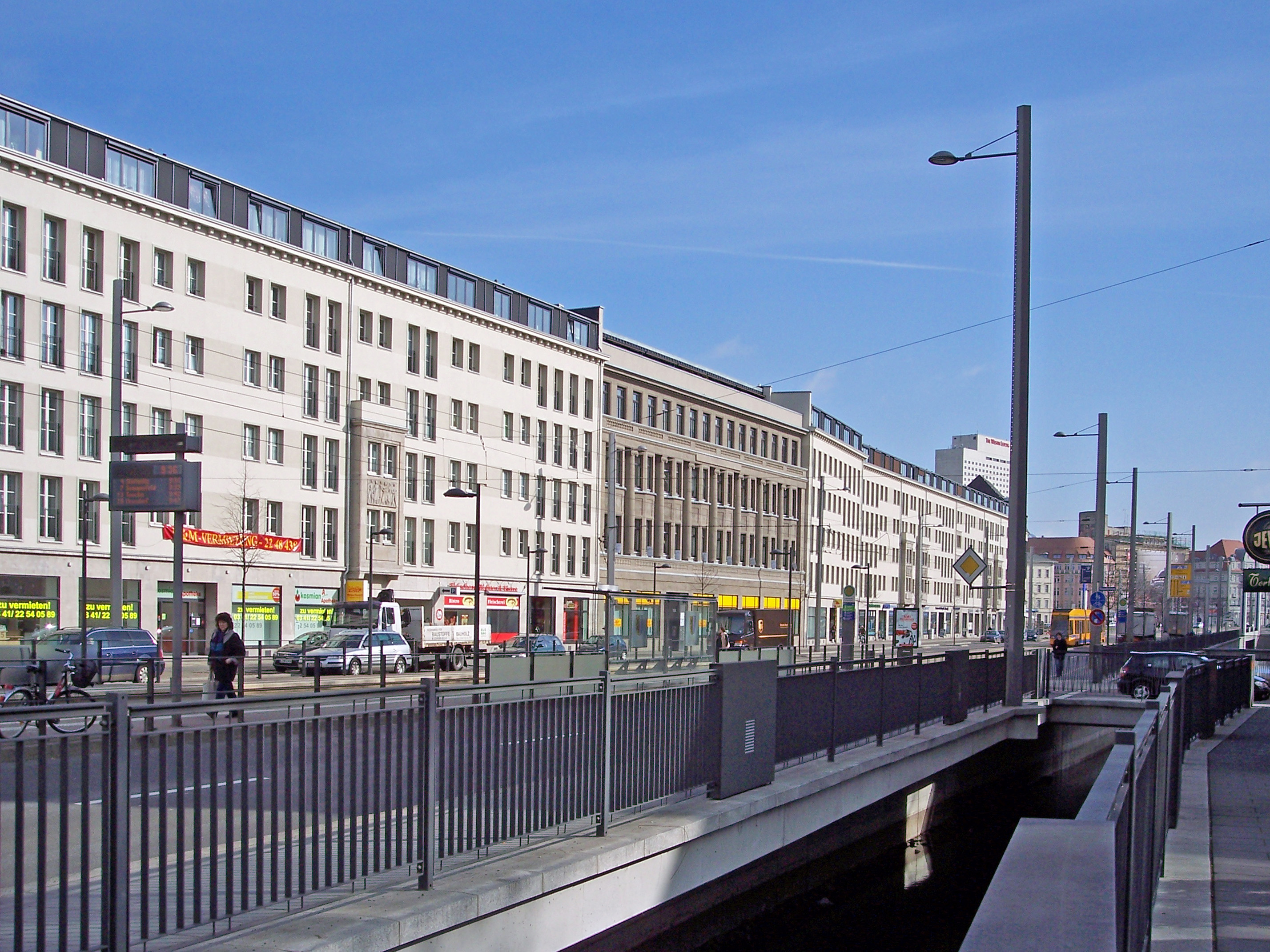 Ranstädter Steinweg in Leipzig